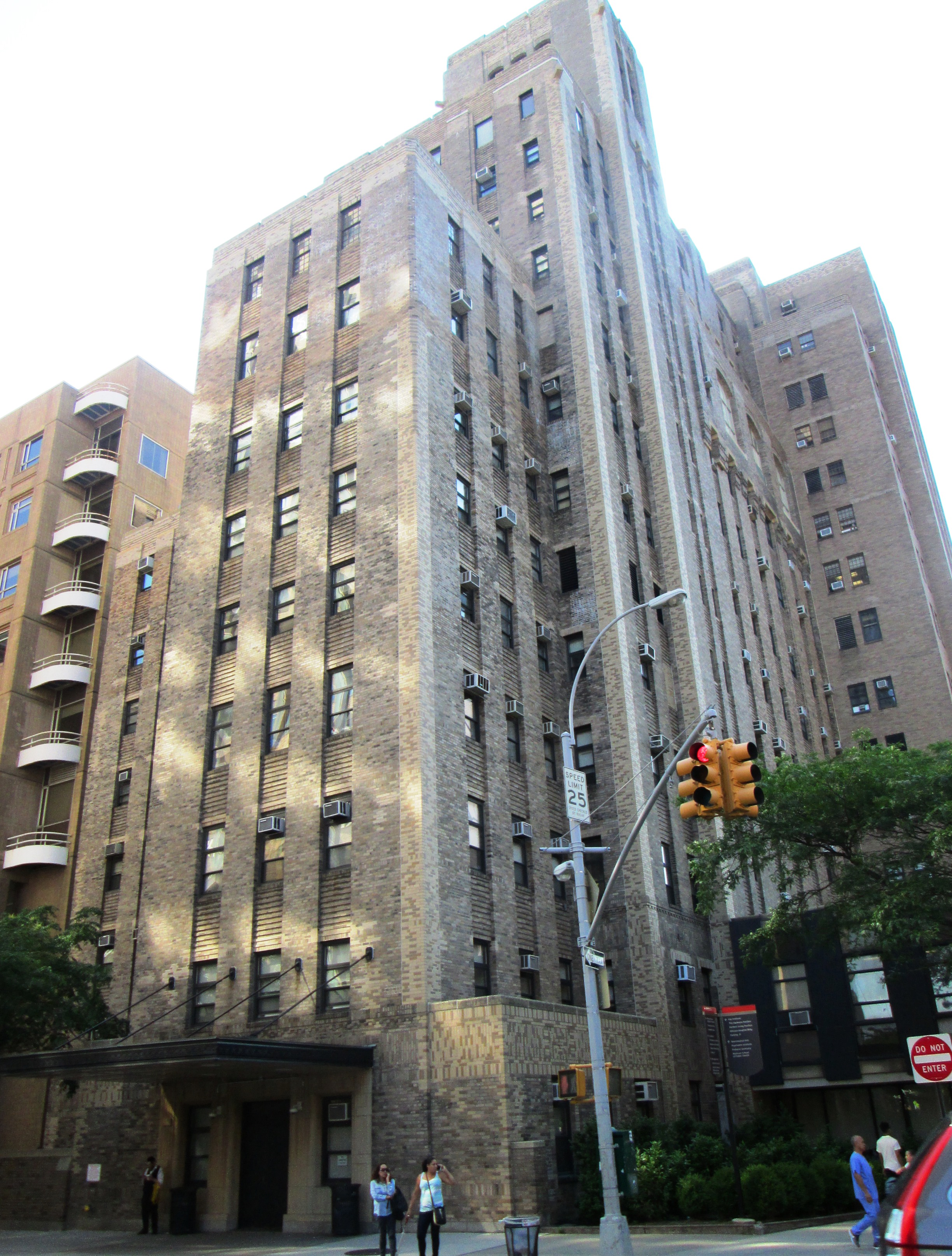 The Neurological Institute of New York, located at 710 West 168th Street at the corner of Fort Washington Avenue in the Columbia University Medical Center in the Washington Heights neighborhood of Manhattan, New York City, was founded in 1909 as the first hospital and research center in the Western Hemisphere devoted solely to neurological disorders. It began teaching Columbia University medical students in 1921, became affiliated with Presbyterian Hospital, now New-York Presbyterian Hospital, in 1925, and merged with it in 1943. The Institute's building dates from 1928 and was designed by James Gamble Rogers. An addition was made in 1948, designed by Rogers & Butler. (Sources: AIA Guide to NYC (5th ed.), Emporis and NYC GIS map)